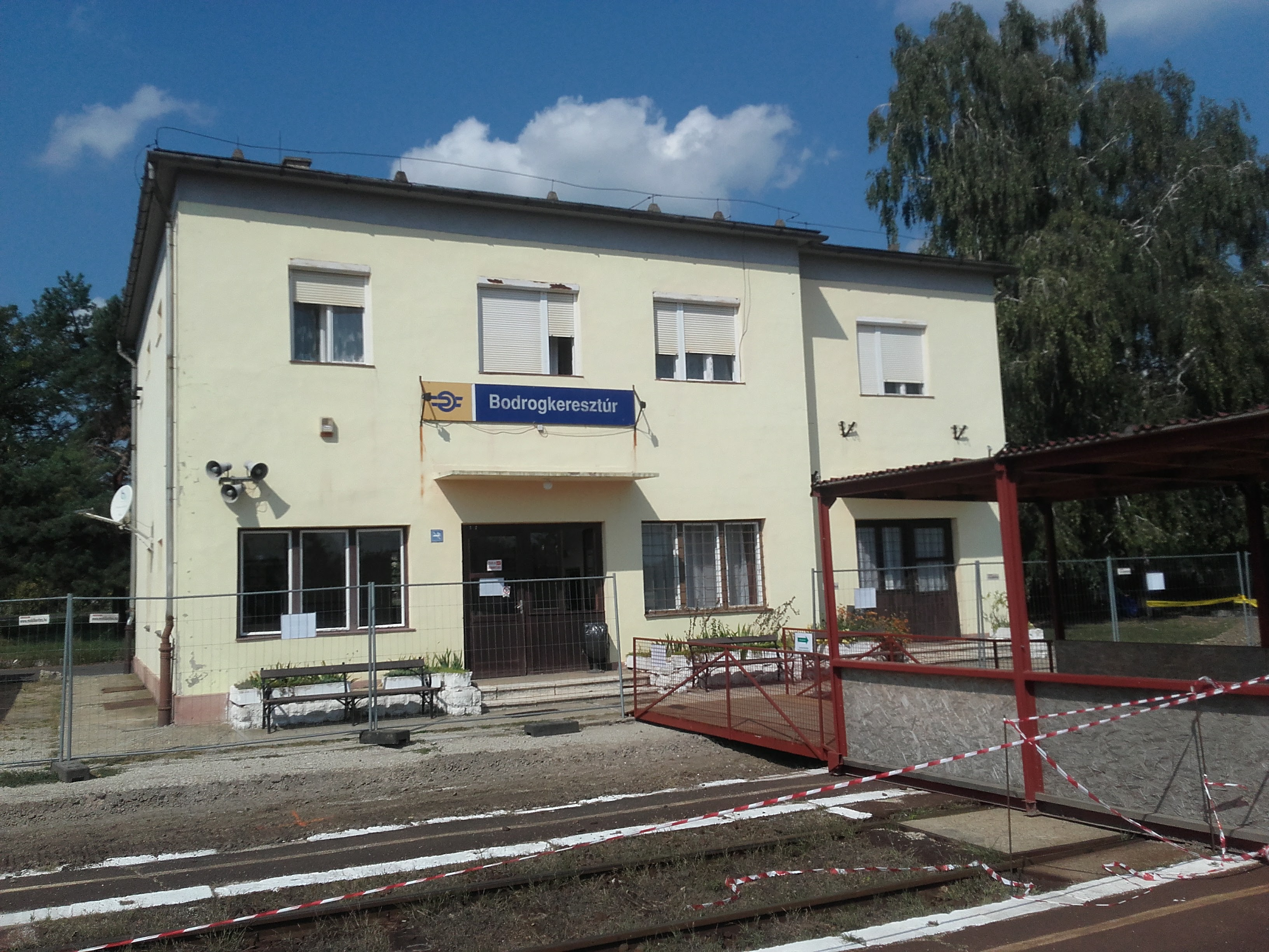 Train station in Bodrogkisfalud, Hungary, on a route from Hatvan.